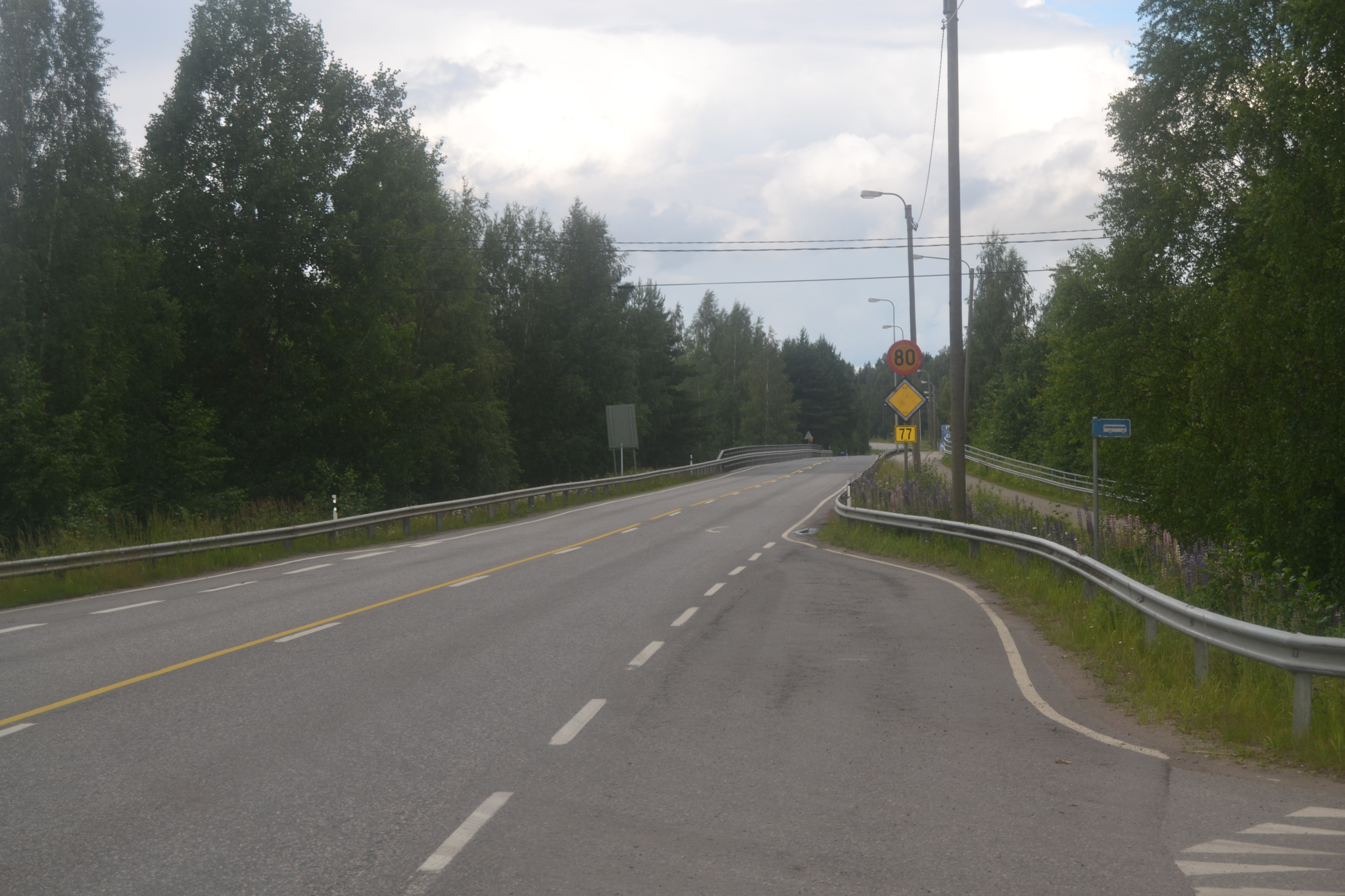 National road 77 in Pielavesi, Finland